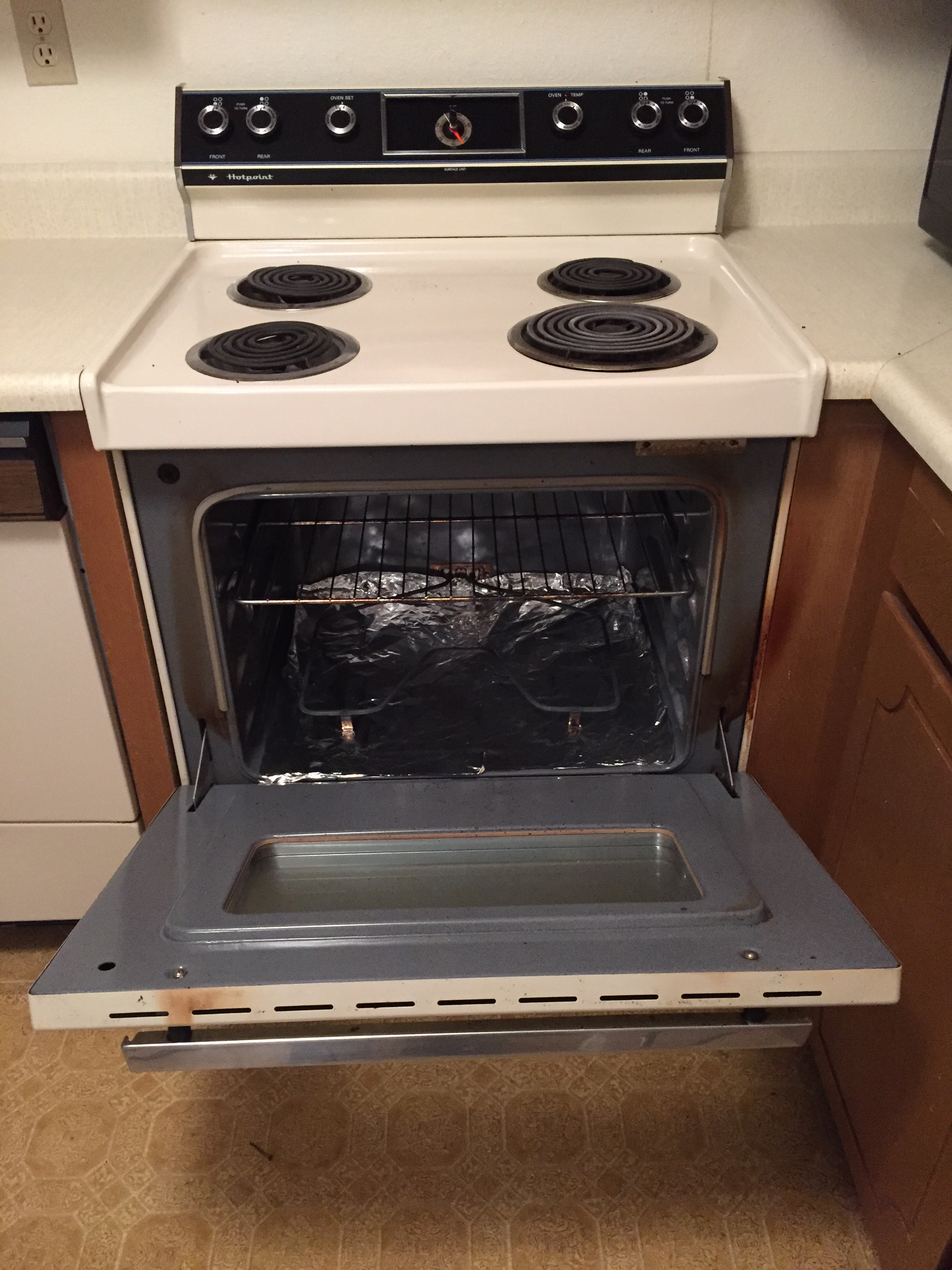 Hotpoint Electric Range Model RB5280A1AD